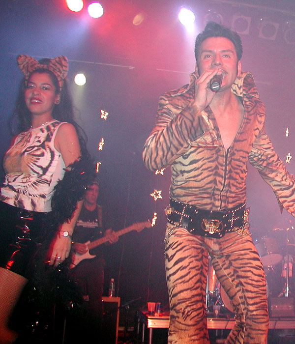 El Vez on stage with the Lovely Elvettes and the Memphis Mariachis - ©2007 ElVezCo